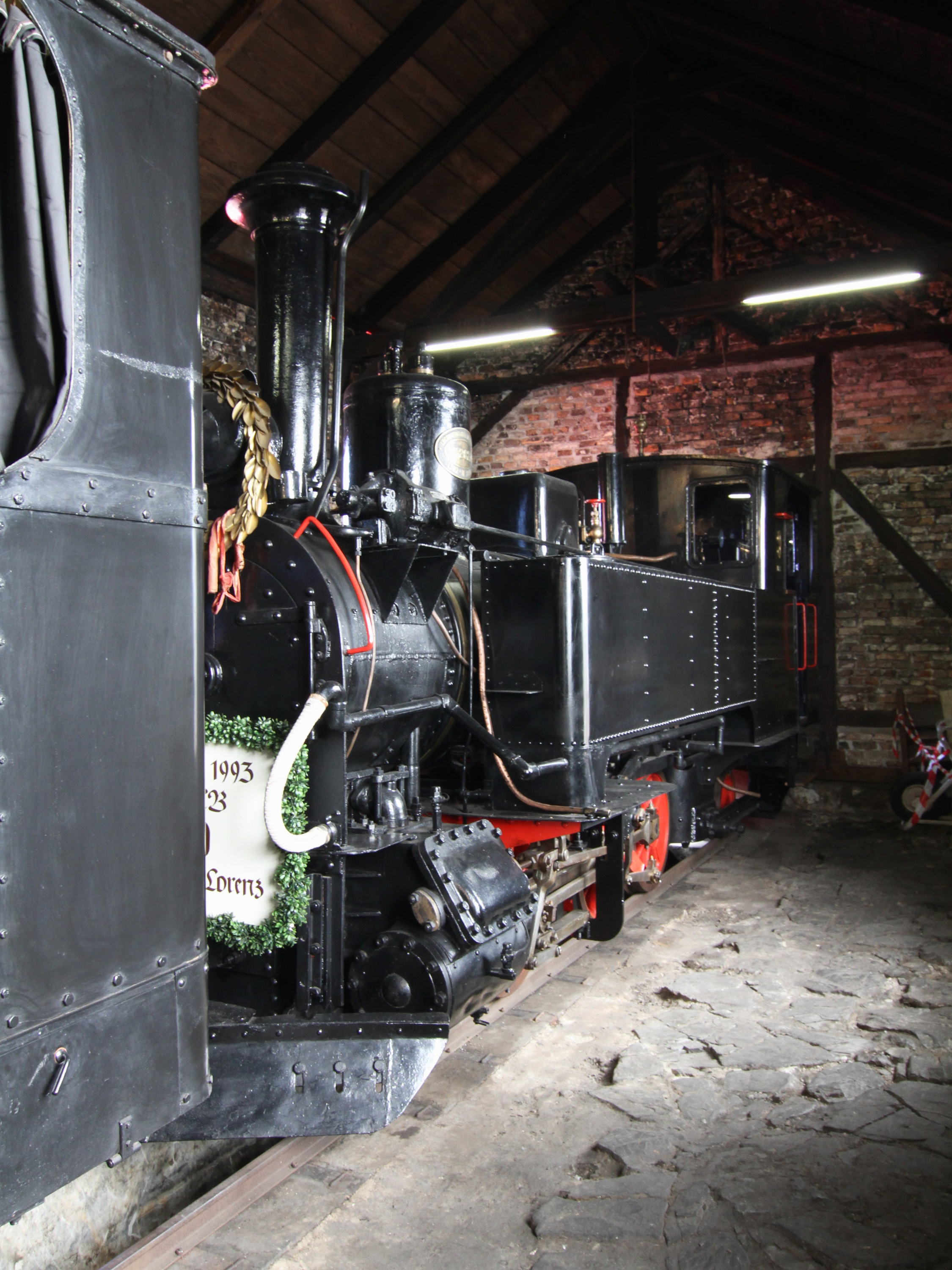 SKGLB No. 9 in Mondsee railway museum.